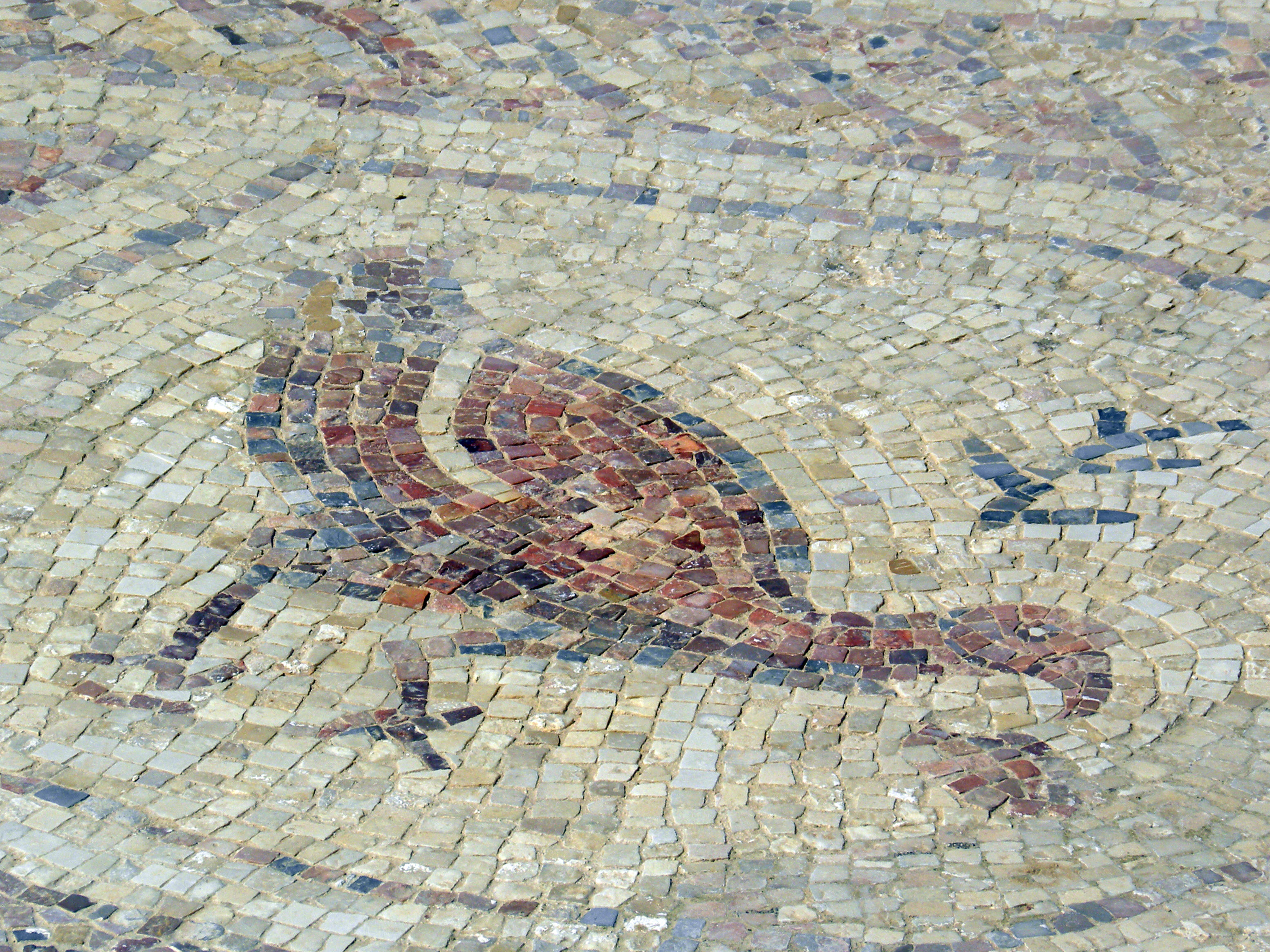 Detail in mosaic floor, Church of St. Nilus, Mamshit archaeological site, Israel.